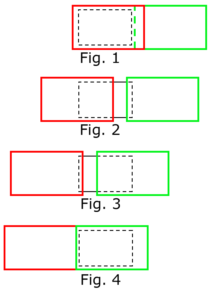 Diagram of focal plane shutter, fast shutter speed.